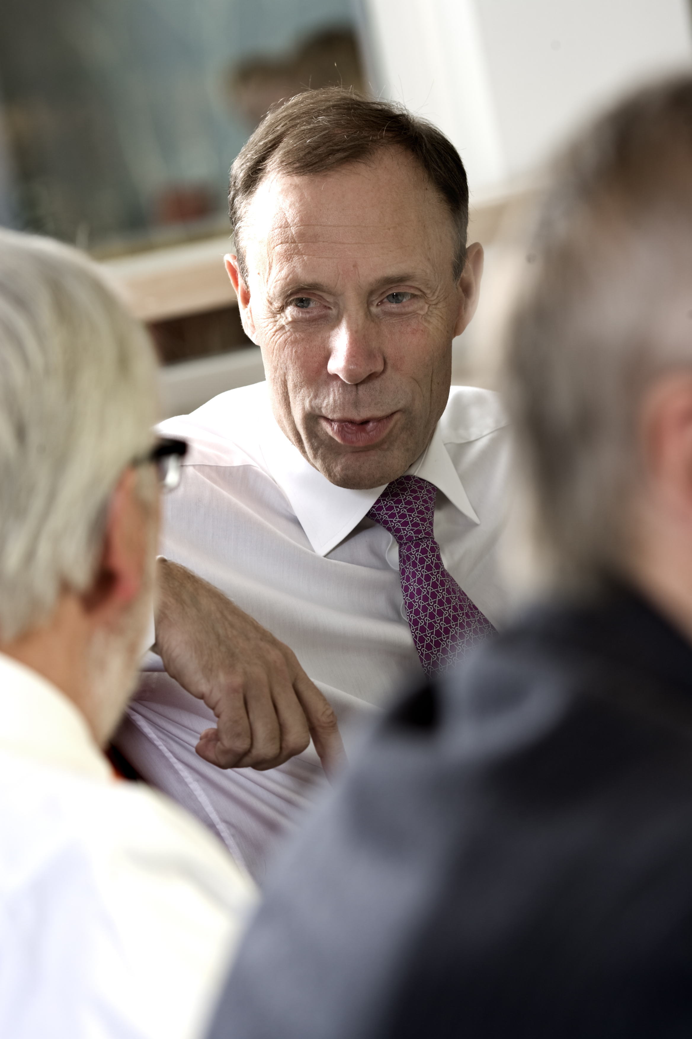 Novozymes CEO Steen Riisgaard at a board meeting December 10 2008, Bagsværd, Denmark.